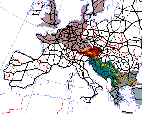 Gastarbeiterroute (former E 5) on todays international E-road network